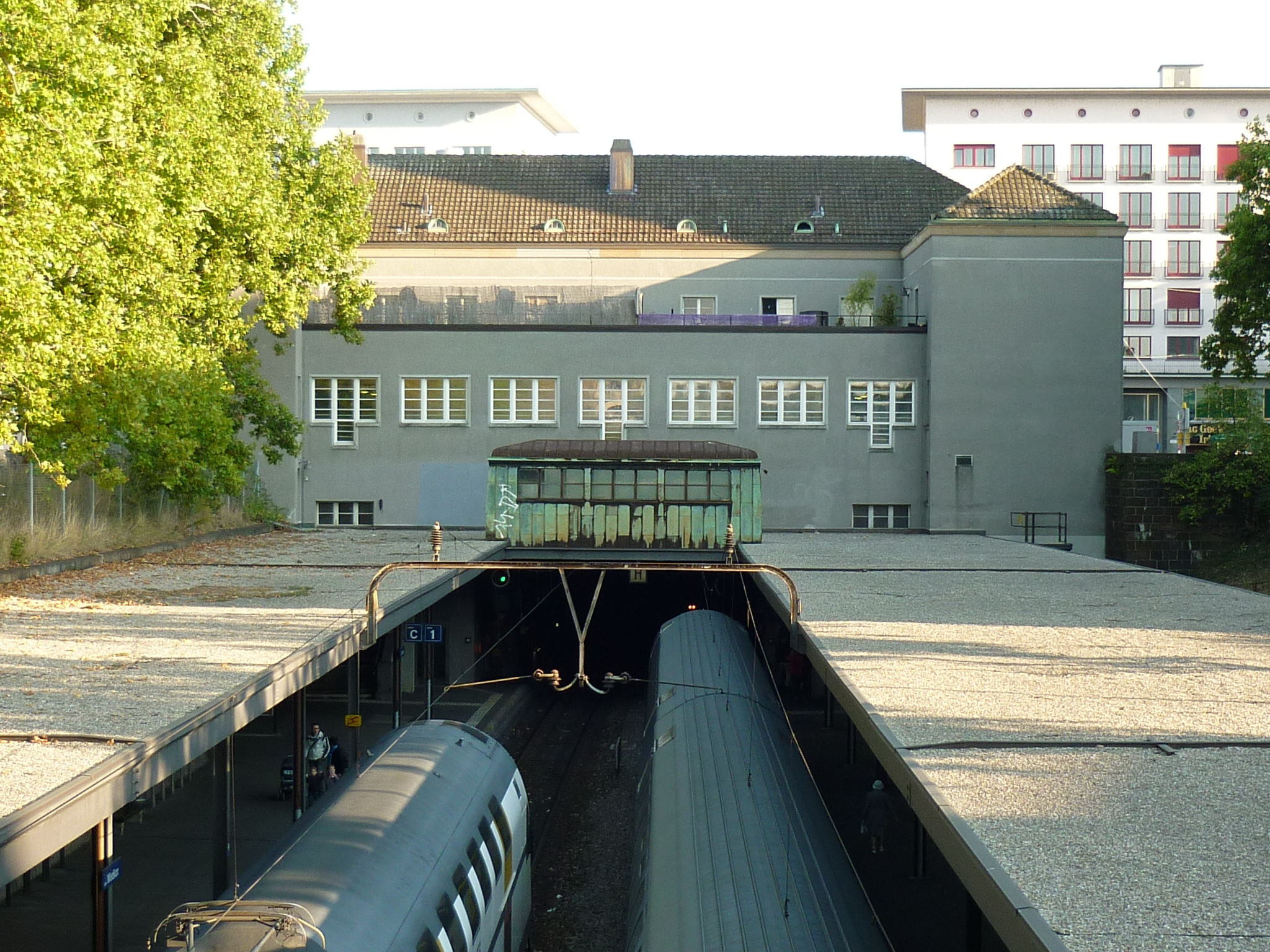 Zurich-Wiedikon, Switzerland